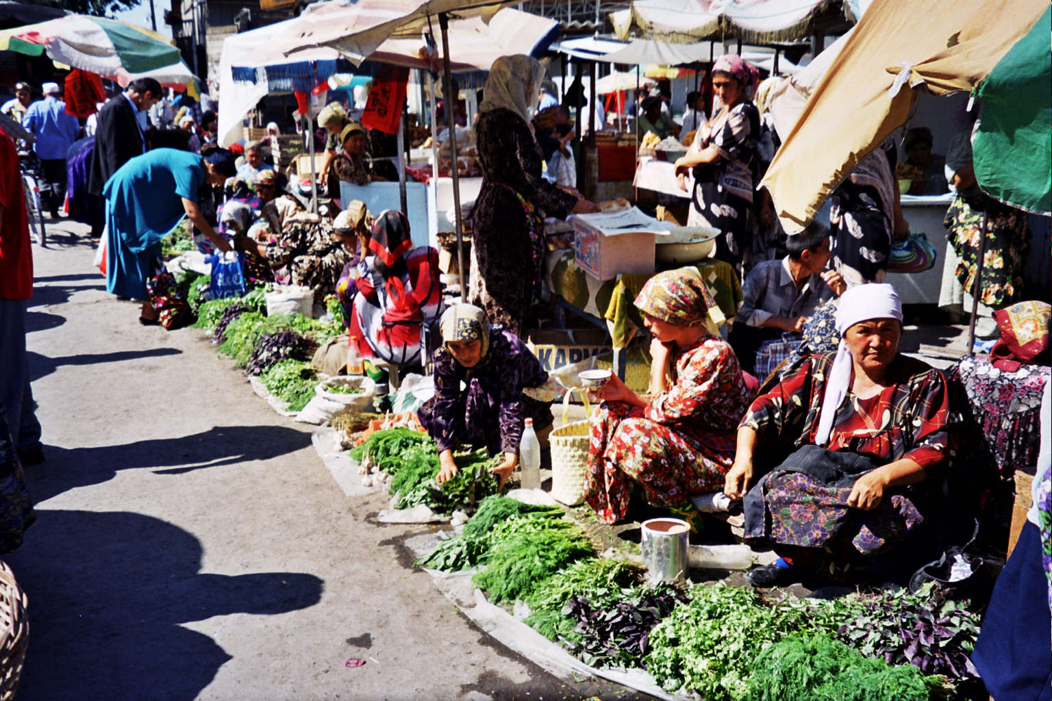 vegetable sellers on a marketplace in Margilan